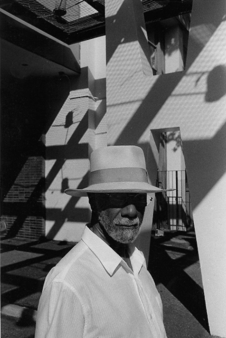 Jules Allen Photography: Rhythmology Series